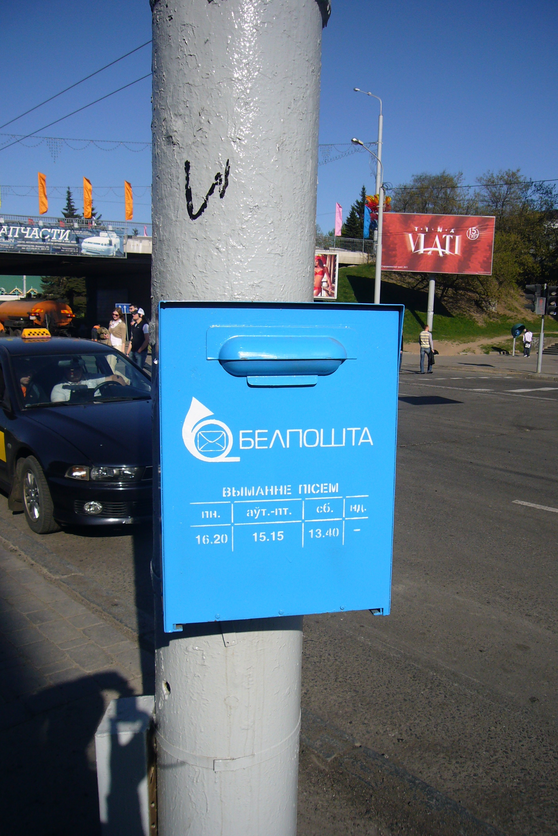 A post box of Belposhta in Minsk, Belarus.